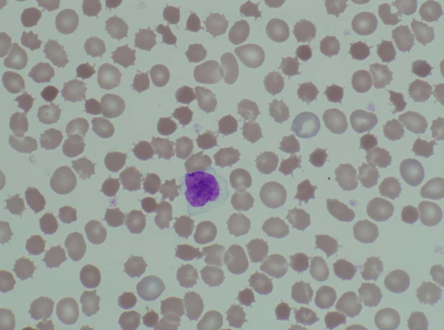 Acanthocytes on the peripheral blood smear of a patient with abetalipoproteinemia.